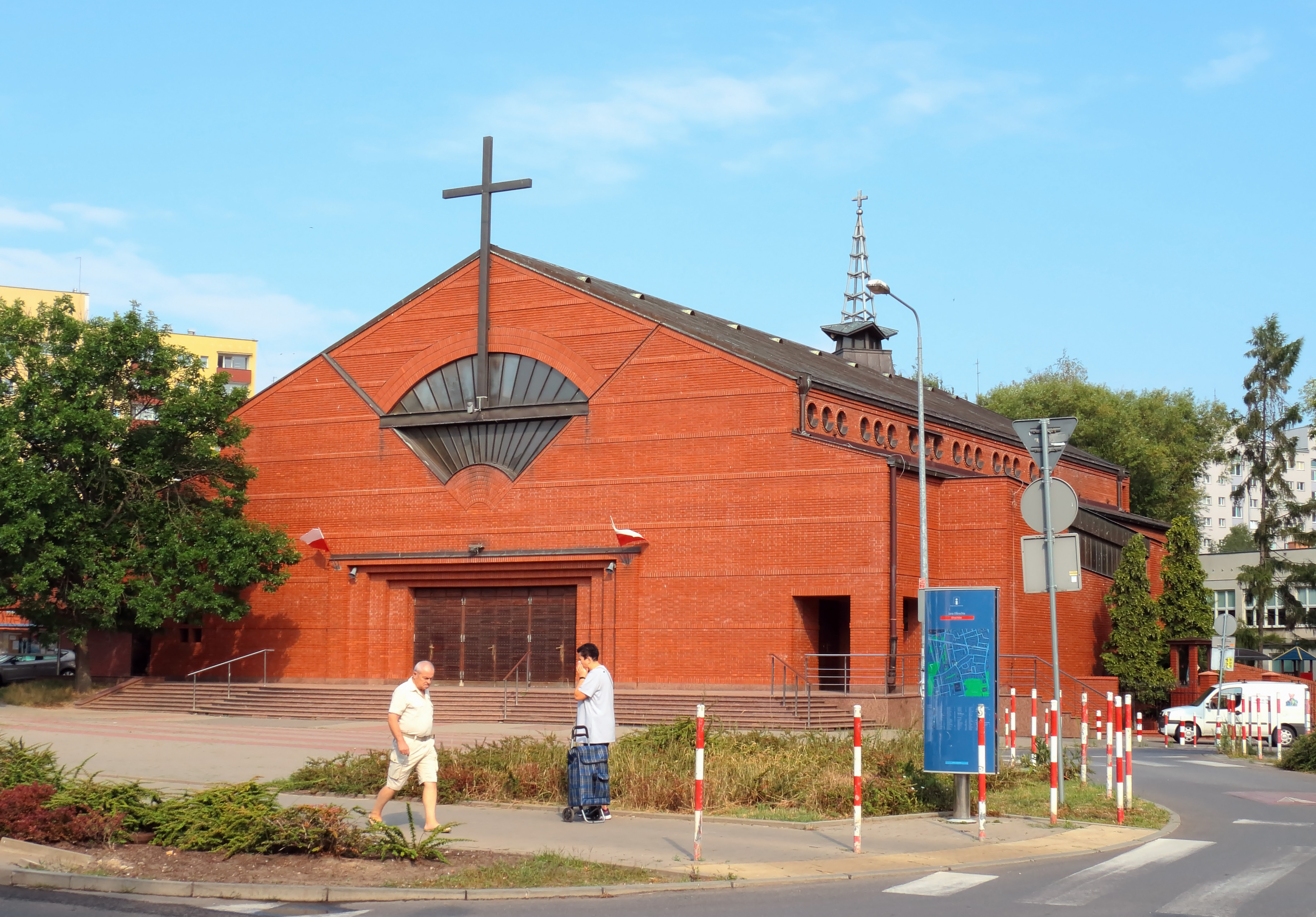 Church of Good Shepherd in Warsaw